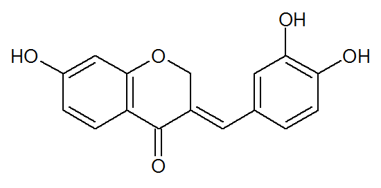 CHemical structure of sappanone A